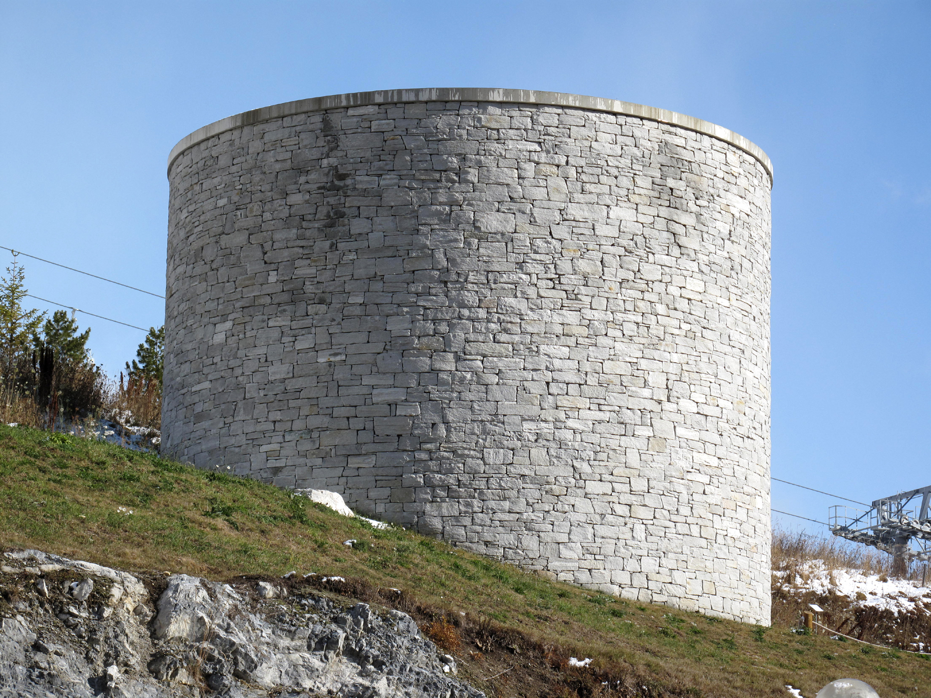 James Turrell, "Skyspace, Piz Uter", 2005, - Switzerland, Graubuenden, Zuoz, near to Hotel Castell